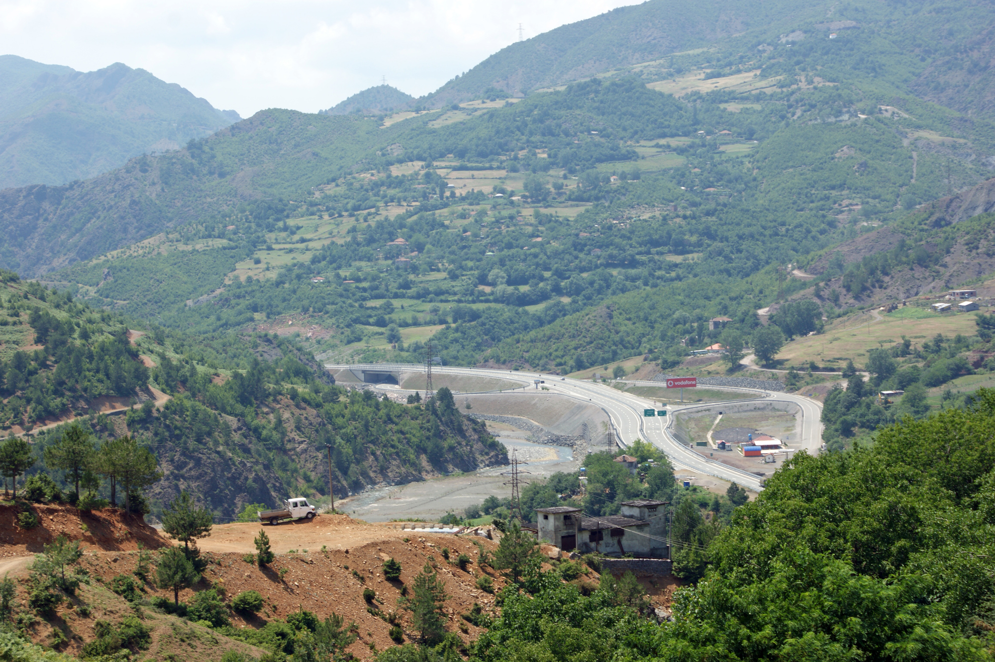 Looking from Reps, Mirdita, Northern Albania, down into the Fan Valley